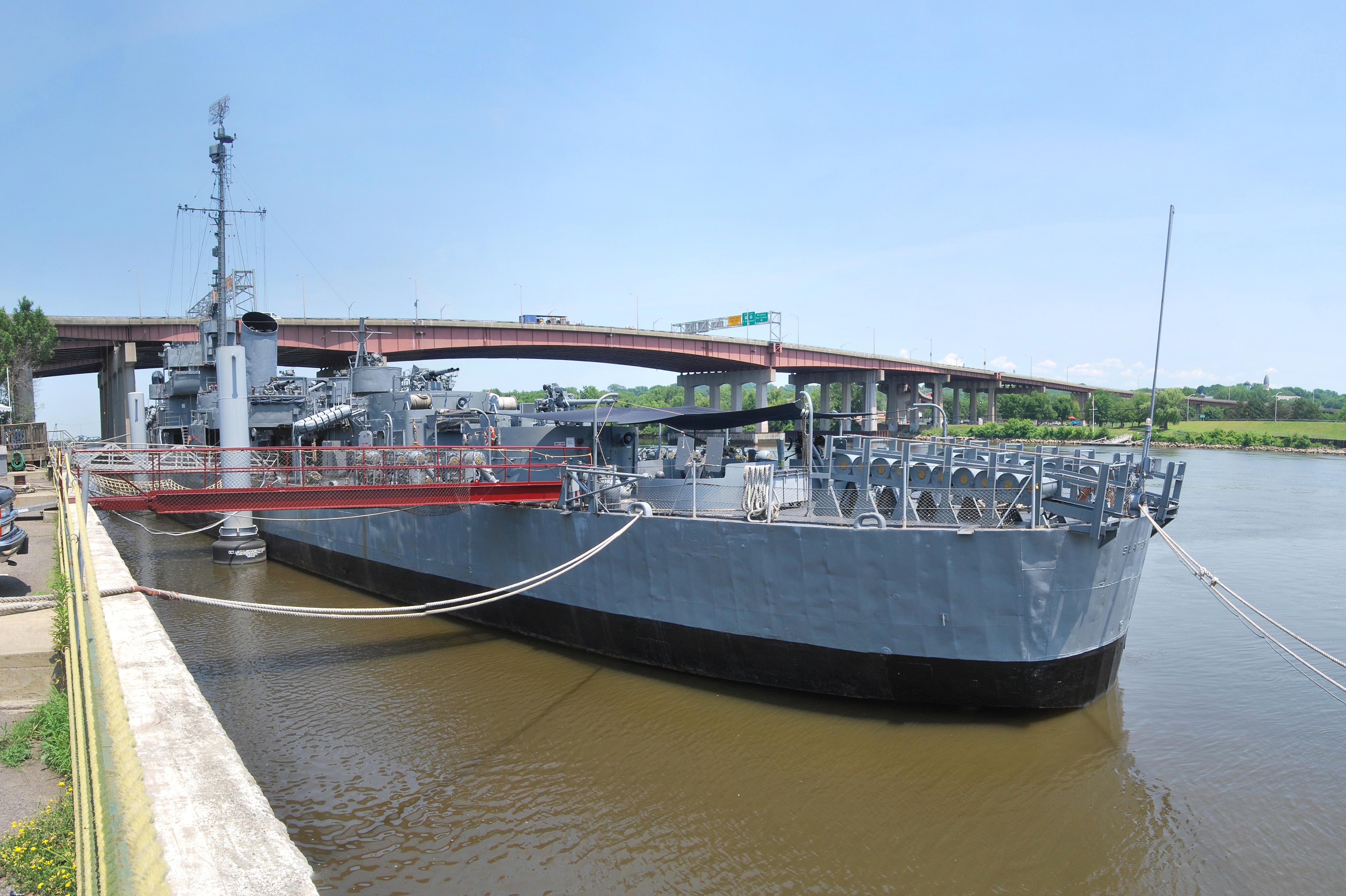 USS Slater (DE-766), a museum ship harbored in Albany, New York